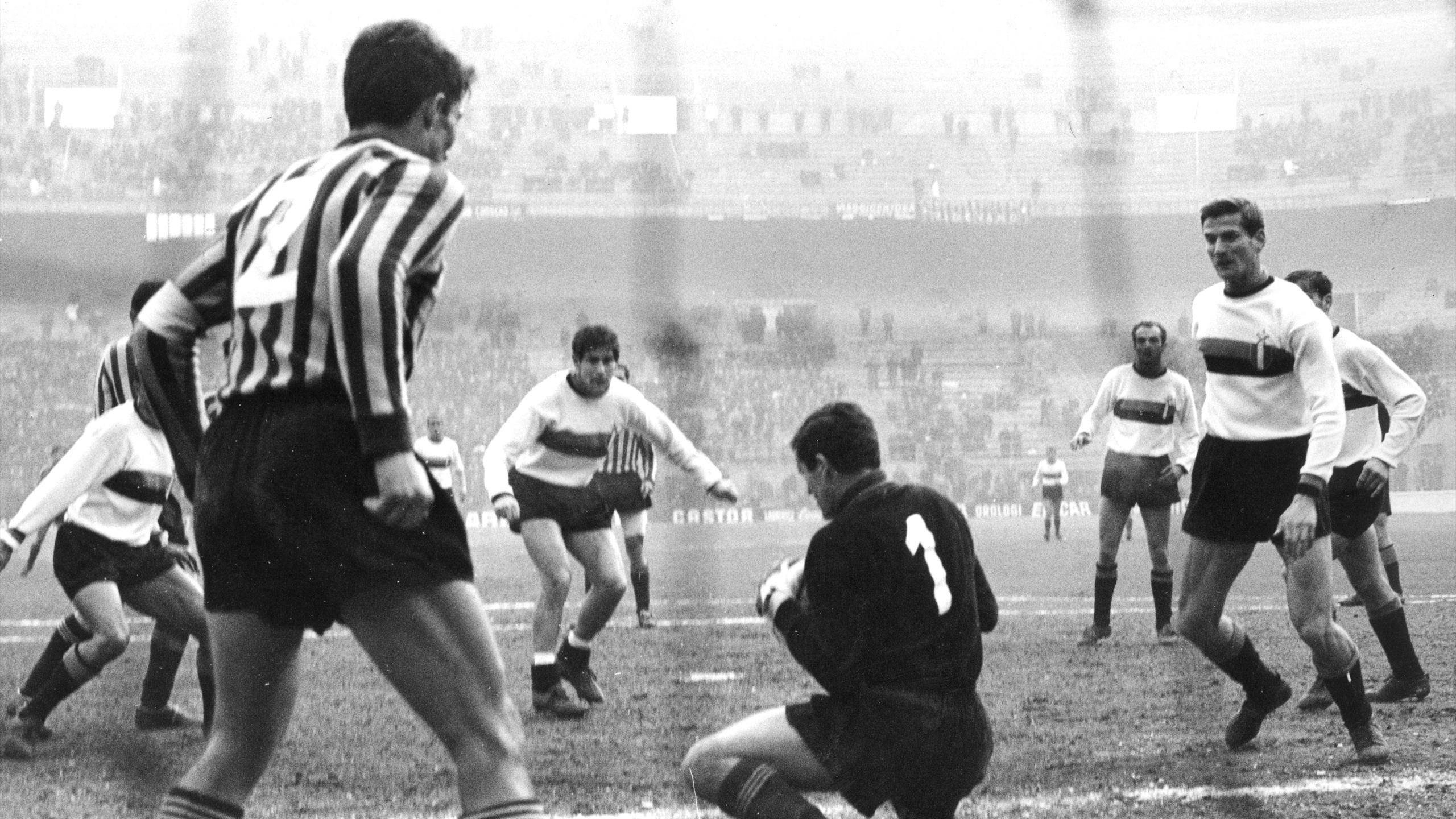 Milan (Italy), San Siro, February 25, 1967. F.C. Internazionale — A.C. Lecco 1-1, Matchday 22 of the Italian Championship 1966–67 Serie A: Lecco's goalkeeper Giuseppe Meraviglia (no. 1) saves an opponent's attack; on the right, Internazionale's left-back Giacinto Facchetti.